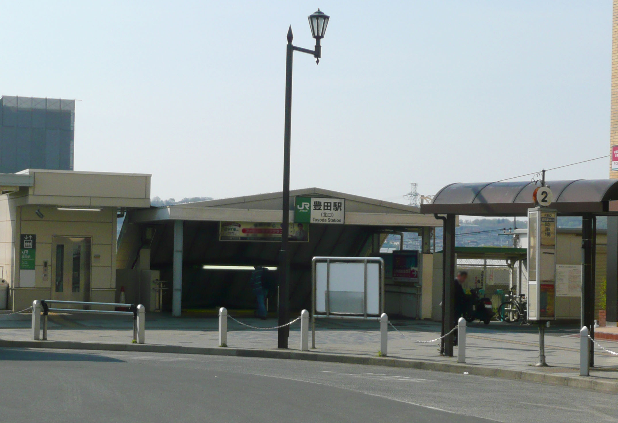 North Entrance of Toyoda Station